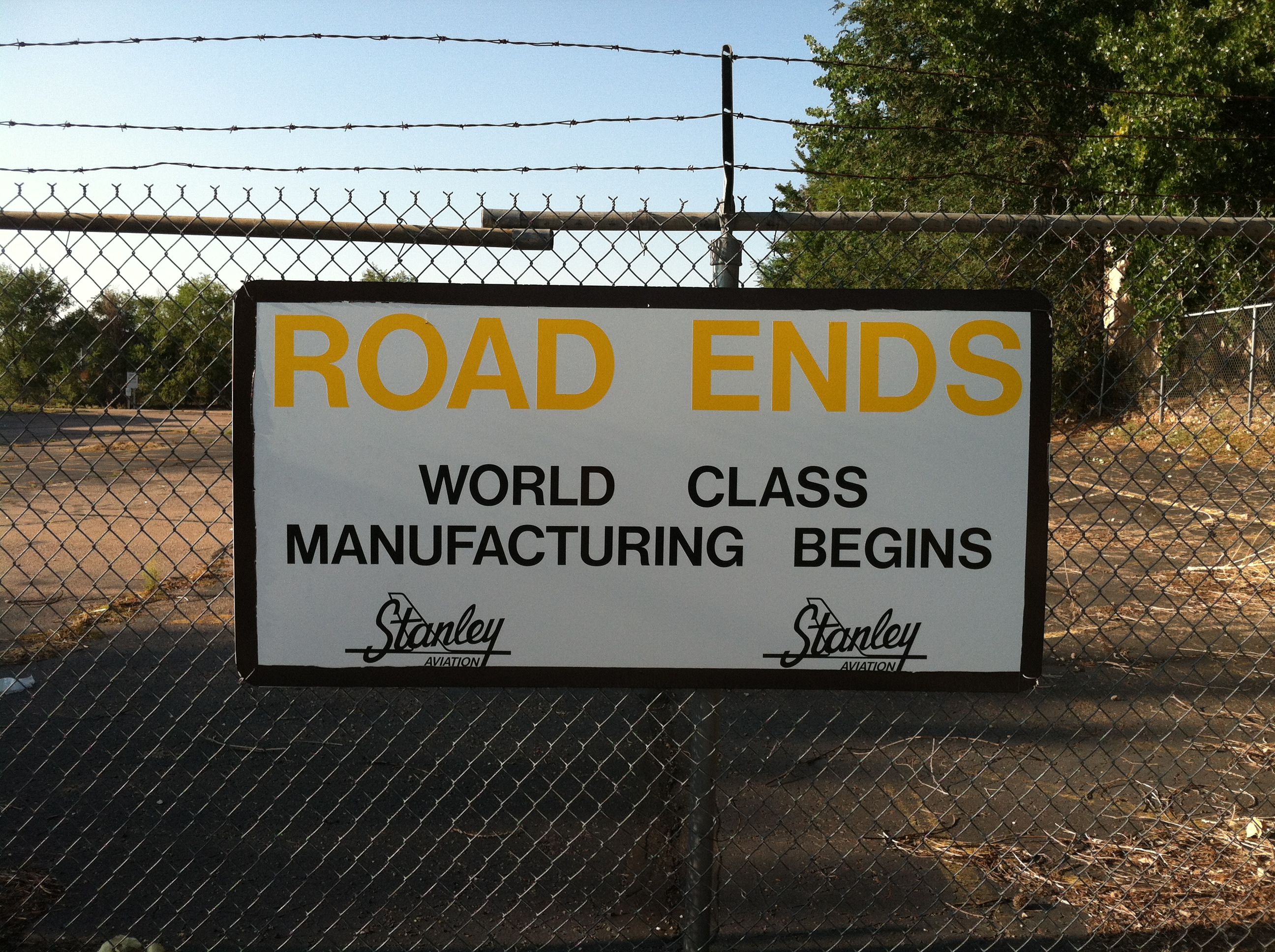 This is a sign attached to the chain link fence at the former Stanley Aviation plant at Stapleton Airport in Denver, Colorado. The sign reads "Road Ends World Class Manufacturing Begins". The photo was taken August 25, 2012, long after the plant closed.